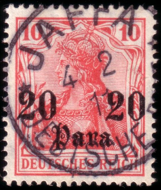 German stamp overprintend for use in Levant pot offices, 20 Para on 10 Pf, MiNr. 37, issued 1906. Base stamp: Germany, 10 Pf "Germania", MiNr. 86I). Postmark: Jaffa, 4.02.1911.